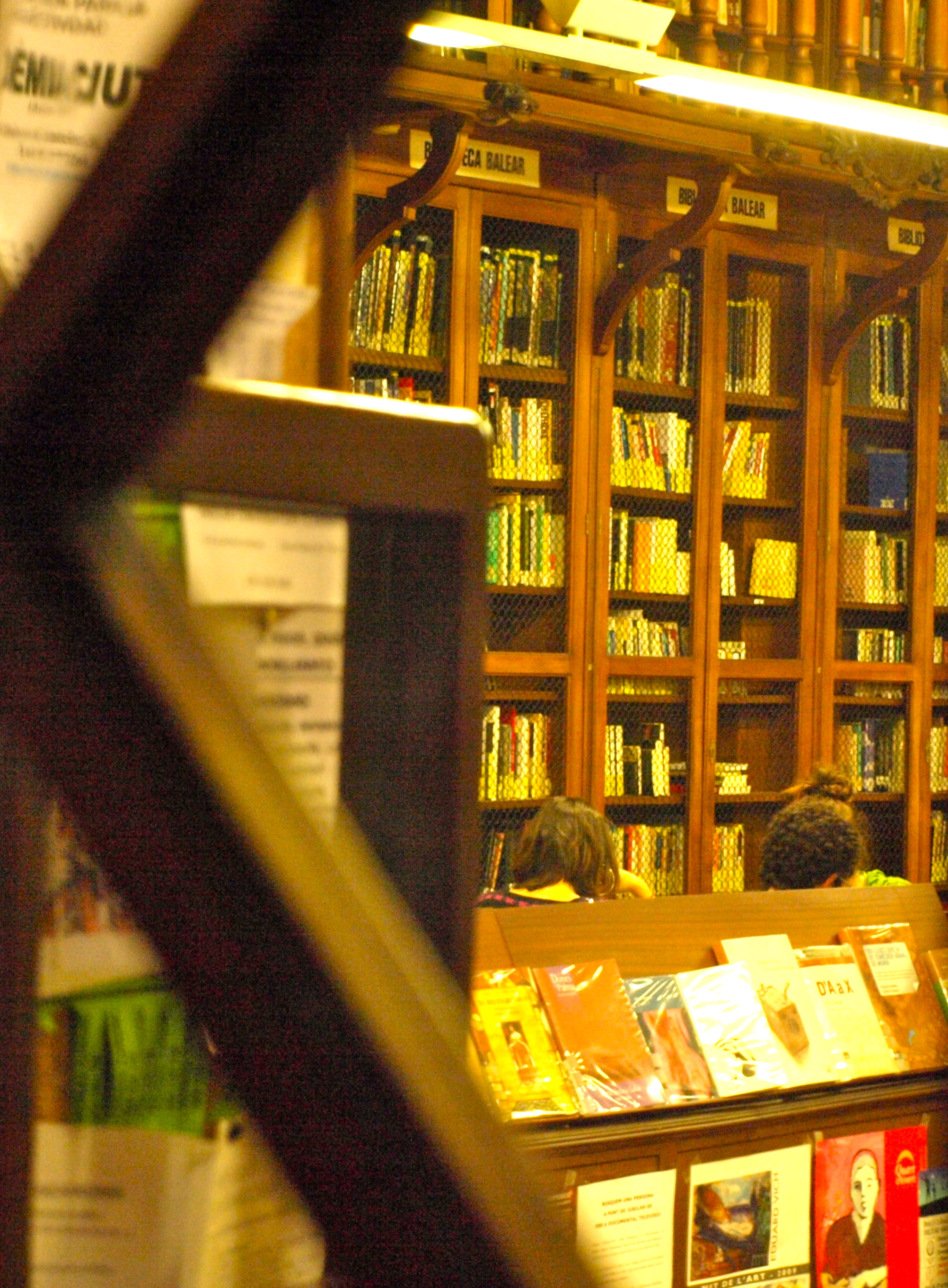 Cort public library Place Lloc/Place: Palma city hall